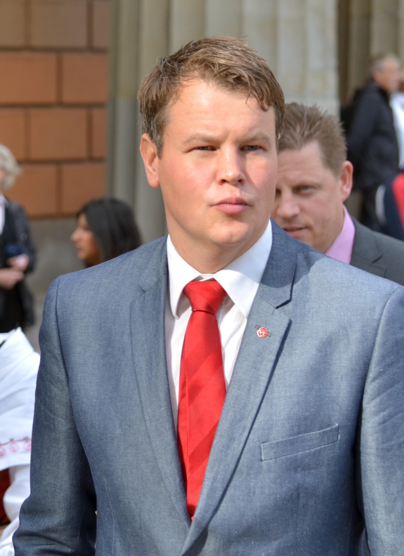 Johan Löfstrand, member of the Riksdag for the Social Democratic Party.